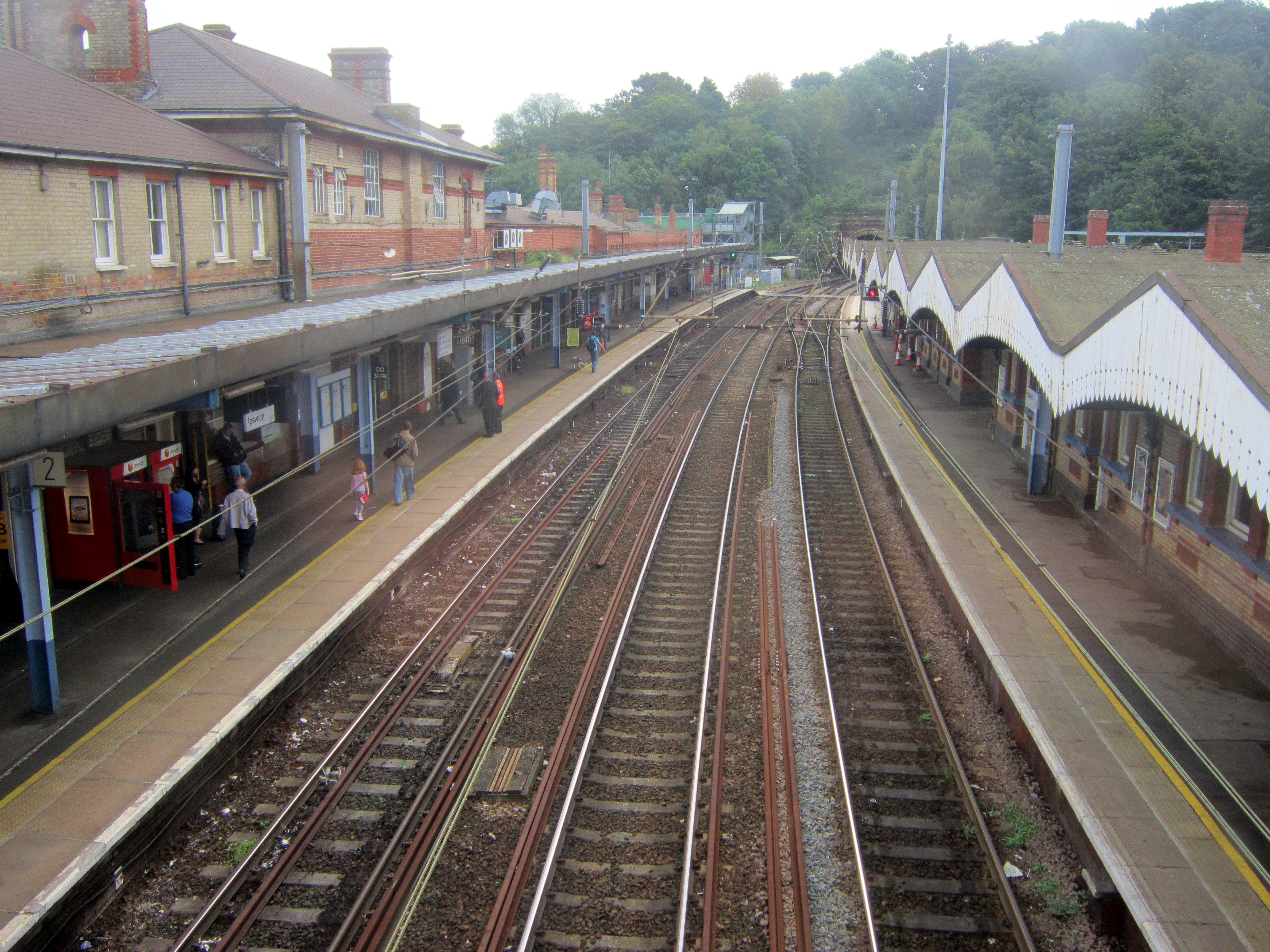 Ipswich railway station (eastwards)